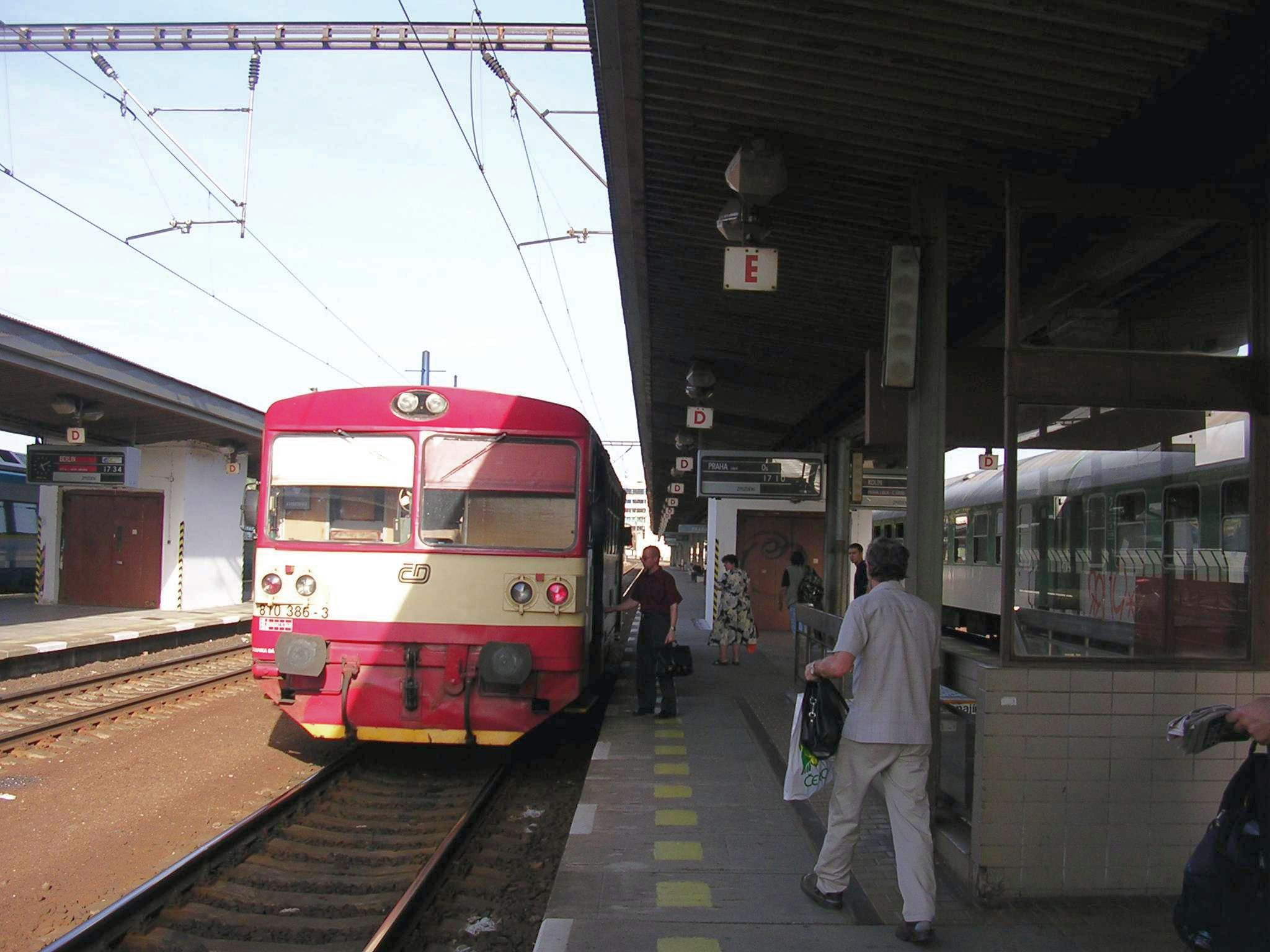 Diesel unit of ML railway line (Praha-Libeň - Roztoky u Prahy) at Praha-Holešovice station in Prague, Czech Republic.